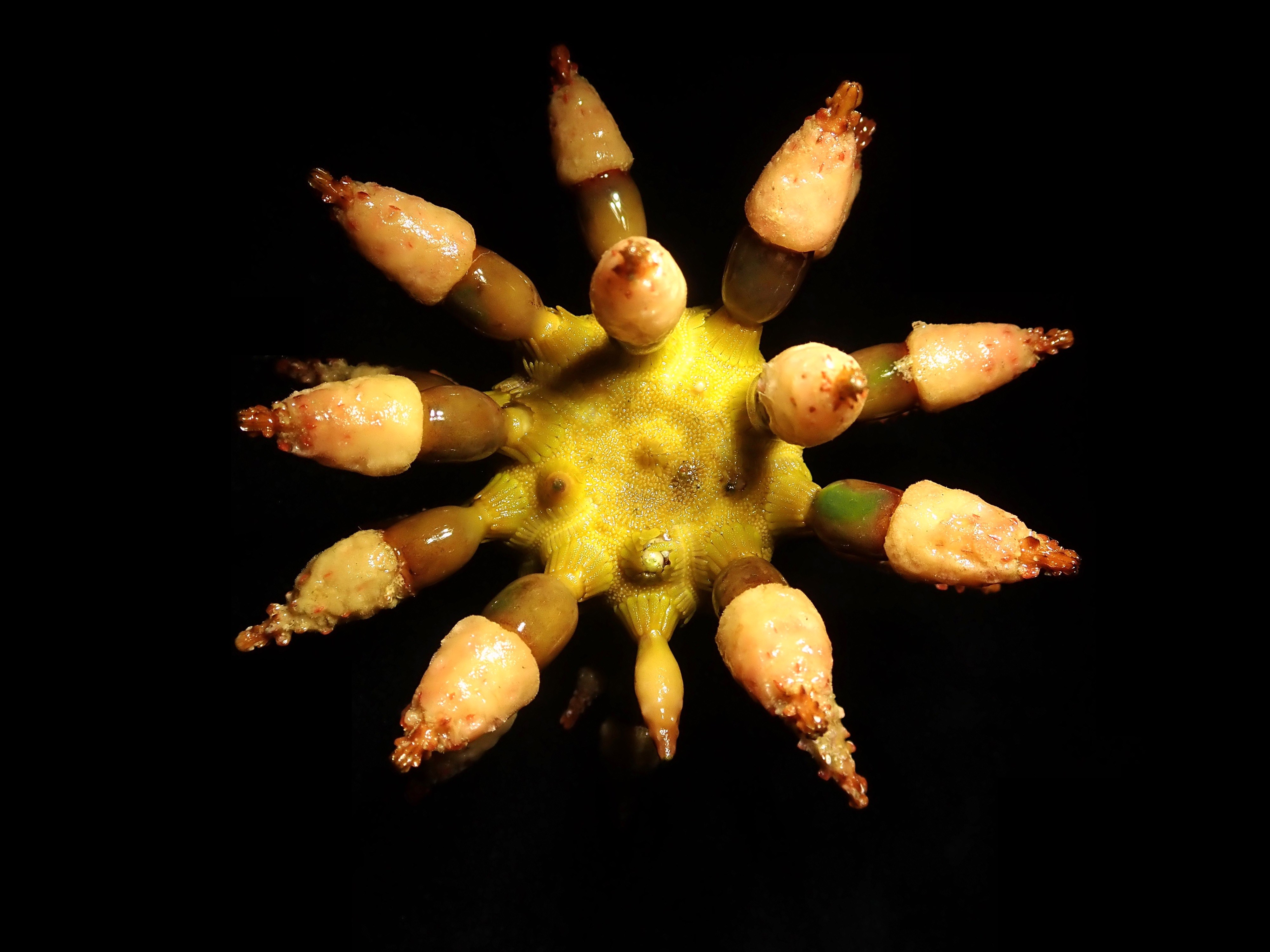 A "raspberry sea urchin" Chondrocidaris brevispina collected off New Caledonia by the scientific expedition "Koumac 2019" (MNHN, "La Planète Revisitée").